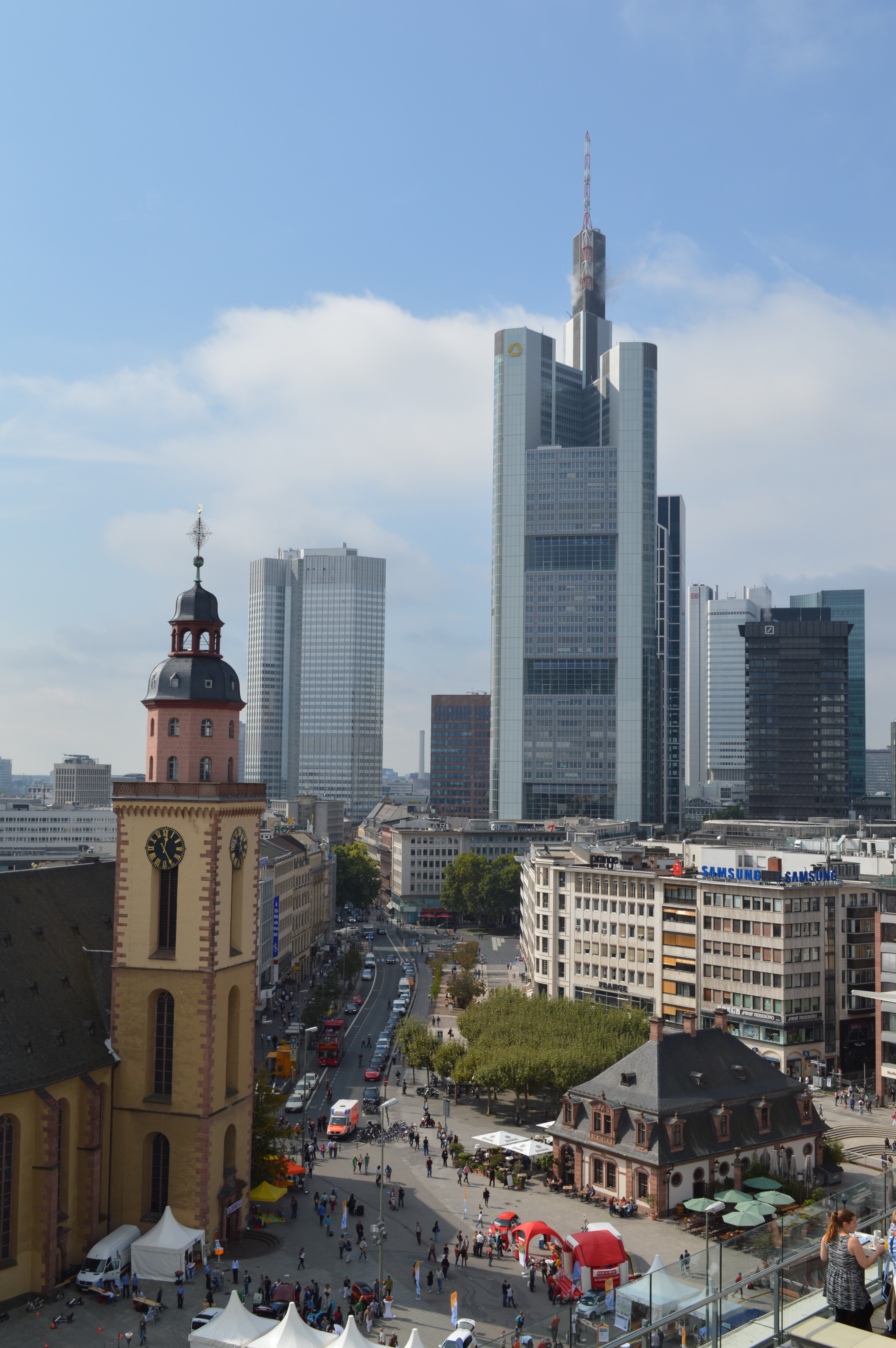 The view towards downtown Frankfurt from the Hauptwache